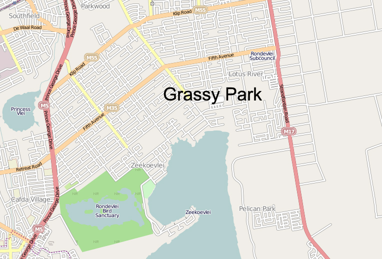 This map of Kenilworth in Cape Town was created from OpenStreetMap project data, collected by the community This map may be incomplete, and may contain errors. Don't rely solely on it for navigation.